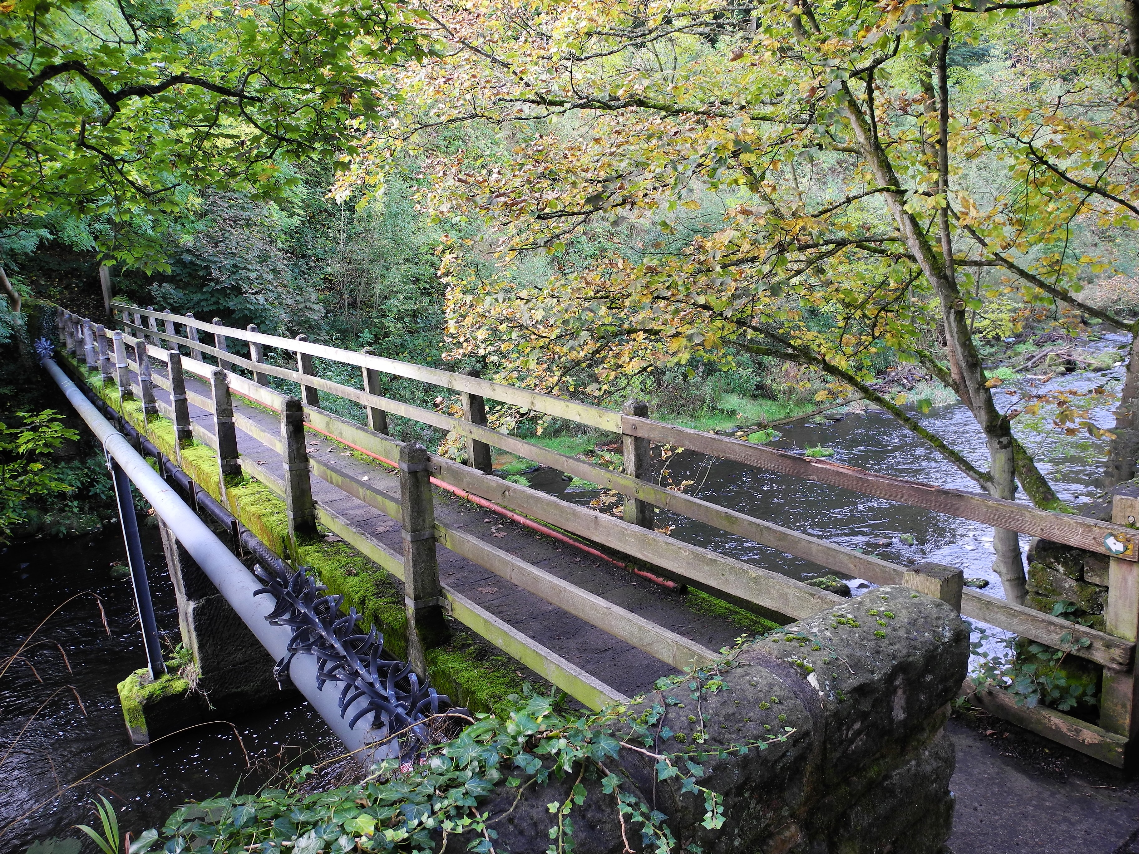 The footbridge over the River Don leading into Beeley Wood in Sheffield, England